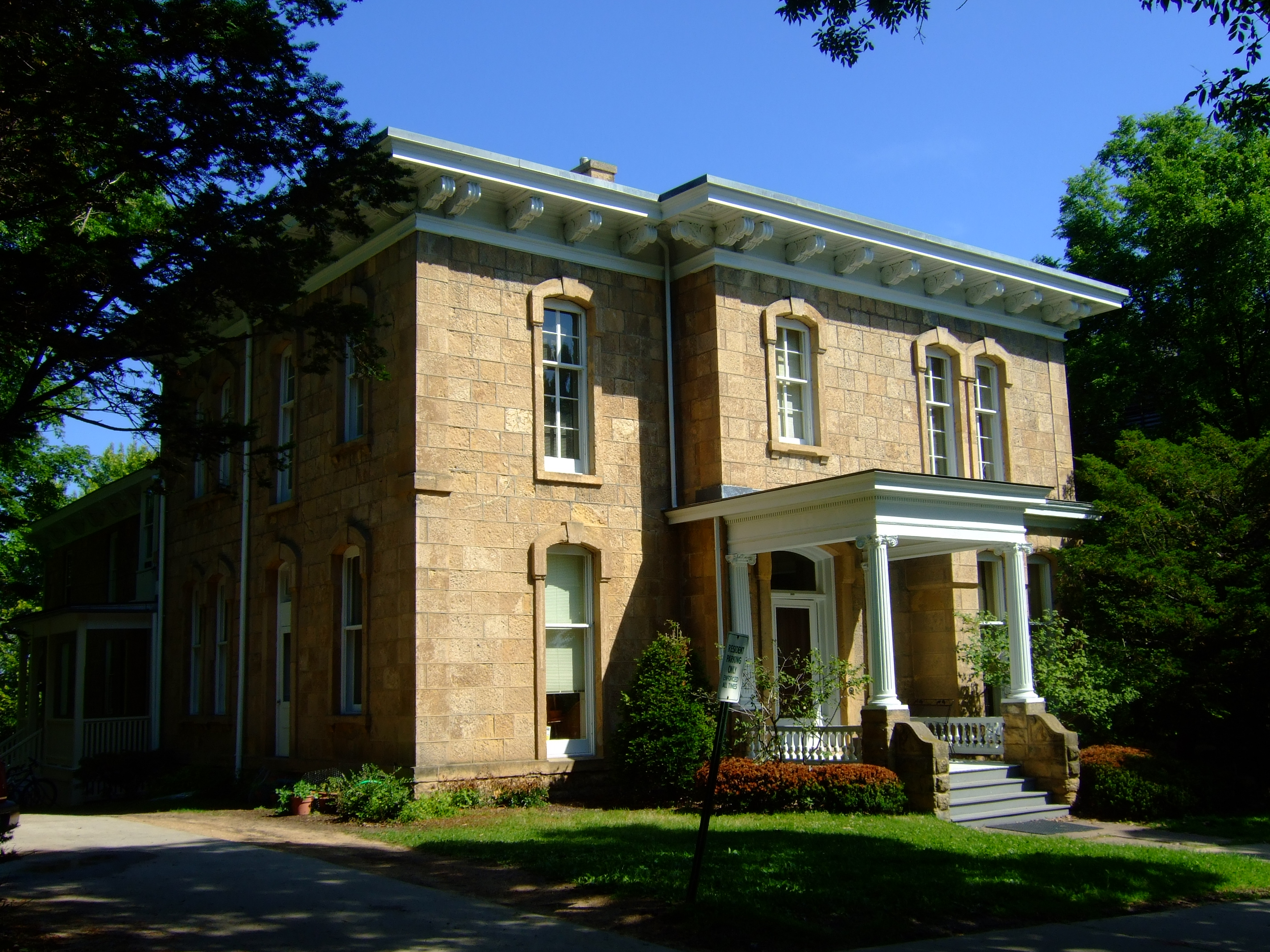 The Old Executive Mansion (1955=56) at 130 E. Gilman Street in Madison, Wisconsin, was added to the National Register of Historic Places in 1973. Constructed of locally quarried sandstone and designed in the Italianate style, this house was originally built for Julius T. White, secretary of the Wisconsin Insurance Company. Governor Jeremiah Rush acquired the house in 1868 and sold it to the state of Wisconsin two years later. It was the executive mansion for seventeen Wisconsin governors between 1885 and 1950. The porch was redone in neo-Classical style by Gordon Paunack in the 1890s.